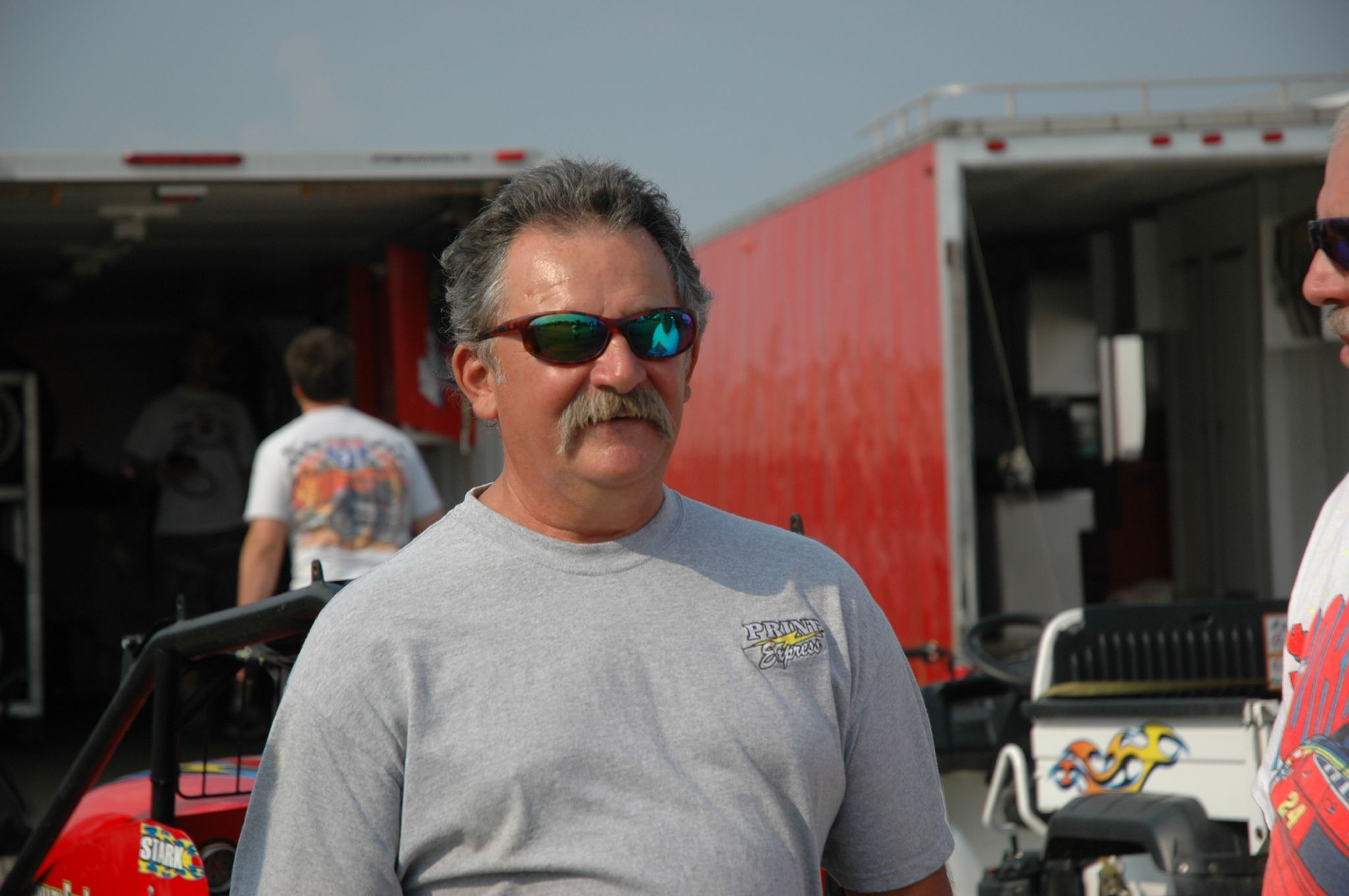 Open wheel racer Jack Hewitt at the Hewitt Classic race at Kokomo, Indiana. He raced in the en:1998 Indianapolis 500 in the Indy Racing League. He is currently the United States Automobile Club competion director.DSC_0052